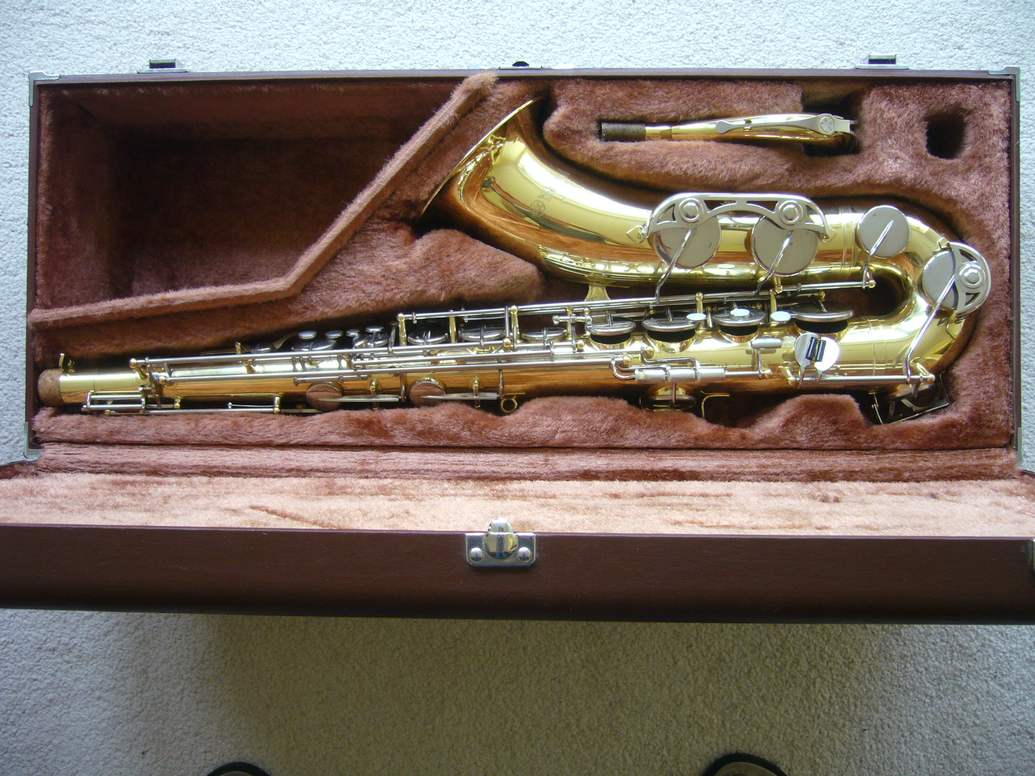 A Yamaha "YTS-23" tenor saxophone, made in Japan. The serial number on this instrument dates manufacture to April 1986, according to enquiries made to Yamaha Corporation. The YTS-23 is regarded as a student-grade instrument, but has a good action and decent intonation with neutral to bright tone-colors. Many professional players have one as their "back-up" instrument. The Yamaha "TS-100" is identical to the "YTS-23" (all parts are interchangeable) and was sold in the Far East, Australia and New Zealand. Required attribution for this photo is: "Photo by Tom Oates, 2012"